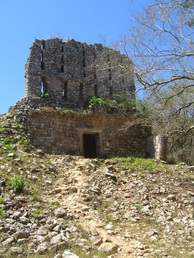 El Mirador (i.e. the view point) at Sayil, Yucatán